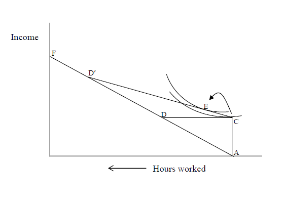 A visual aid to describe a complex model